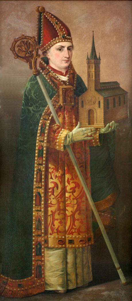 After a painting of Ansgars of Hans Bornemann dated 1457.